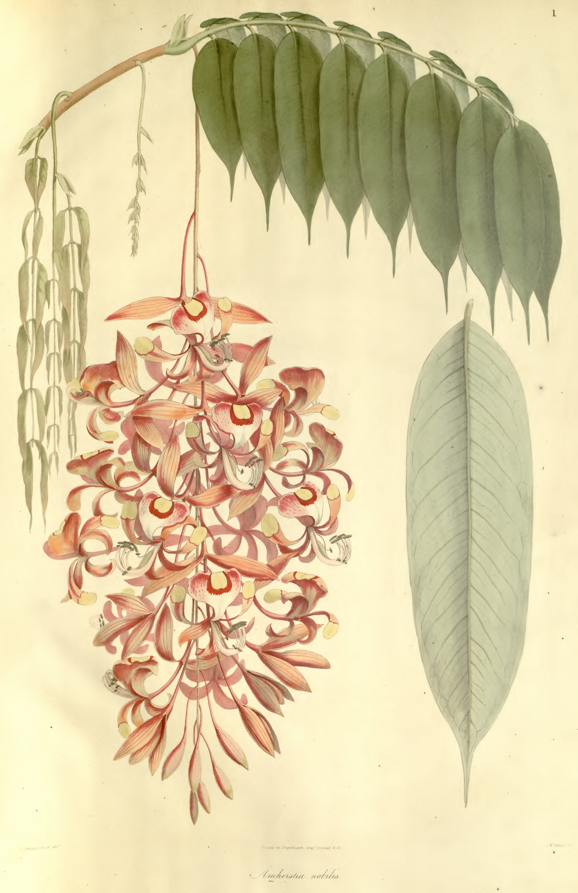 Amherstia nobilis